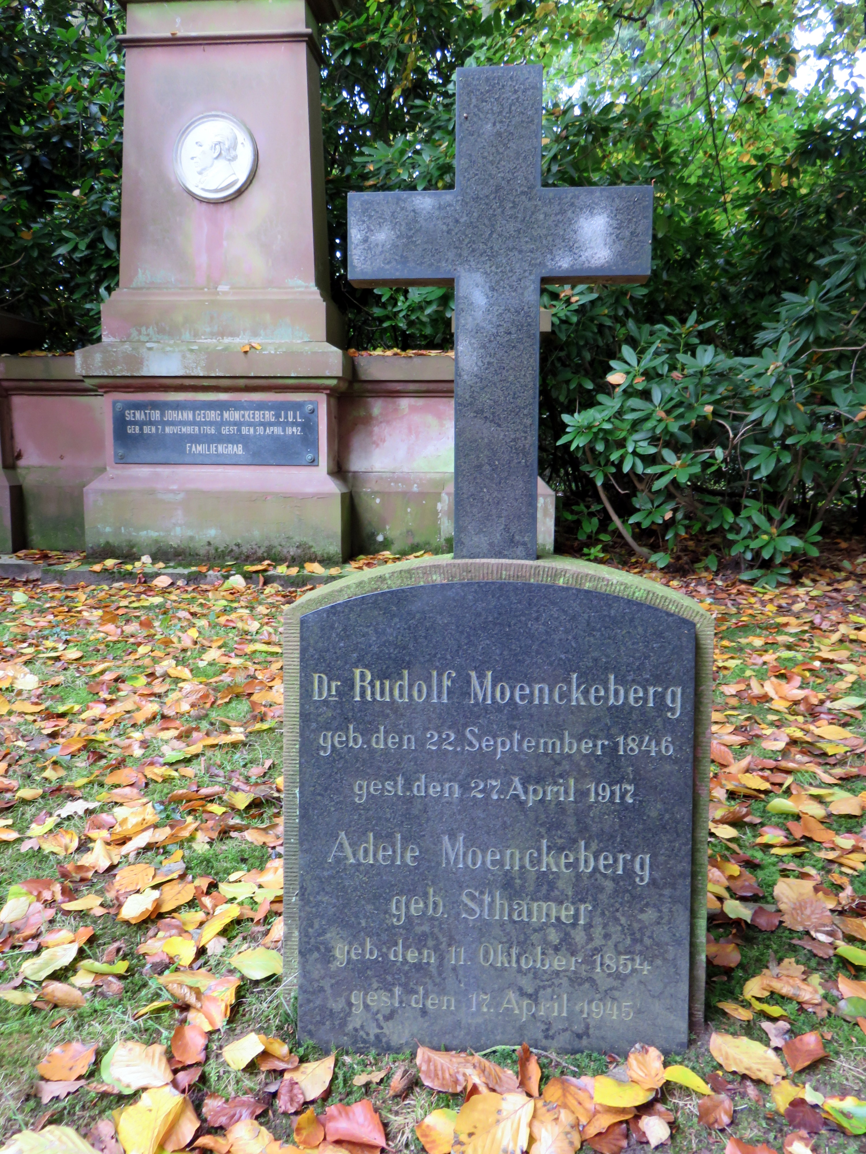 Gravestone for Hamburg judge and politician Rudolf Mönckeberg, grave area of Mönckeberg family, Hamburg Cemetery Ohlsdorf.